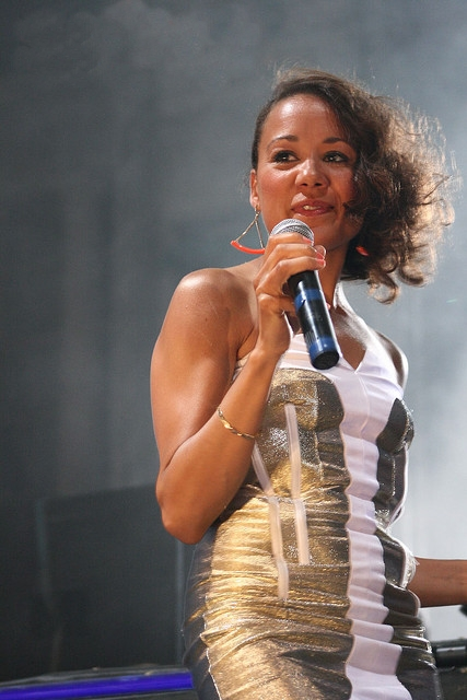 Camille Jonesem live in 2008.